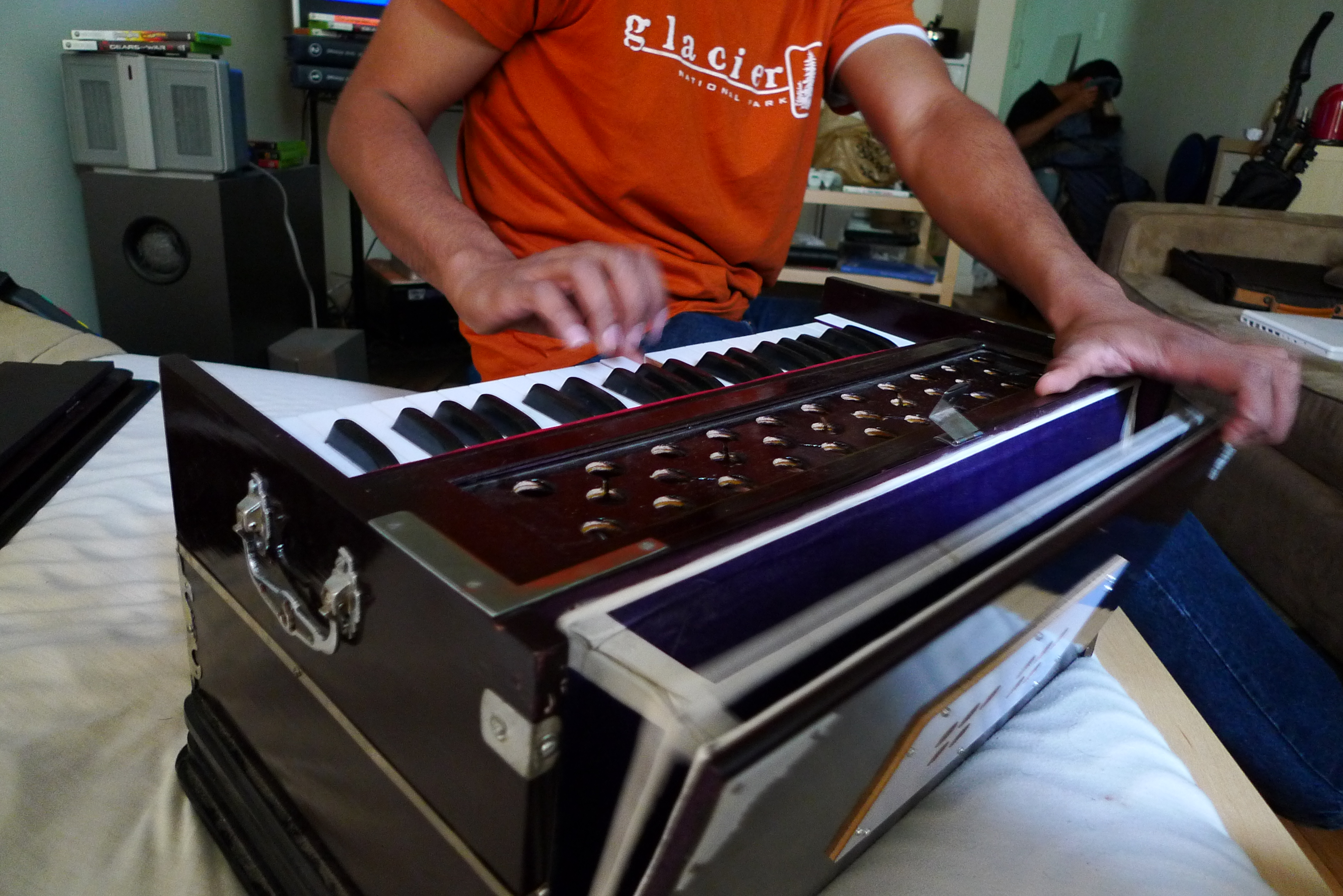 A traditional wooden portable harmonium being played by an amateur enthusiast in a Manhattan apartment